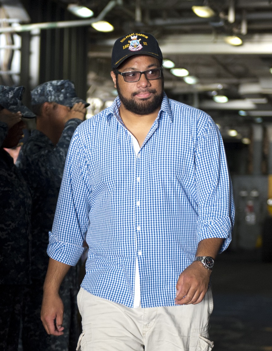 130615-N-WD757-212PACIFIC OCEAN (June 15, 2013) –U.S. Navy Sailors salute the Speaker of the House for Tonga Fatafehi Fakafanua as he departs the amphibious dock landing ship USS Pearl Harbor (LSD 52) after a tour during Pacific Partnership 2013. Pacific Partnership is a unique mission that brings host nation governments, U.S. military, partner nation militaries and non-governmental organization volunteers together to conduct disaster-preparedness projects and build relationships in the Indo-Asia-Pacific region to better respond during a crisis. (U.S. Navy photo by Mass Communication Specialist 2nd Class Carlos M. Vazquez II/Released)